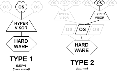 The two types of hypervisors for virtualization